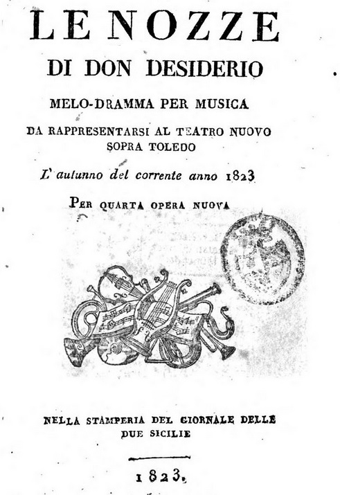 Title page of the libretto for Giuseppe Balducci's opera, Le Nozze di Don Desiderio, premiered at the Teatro del Fondo, Naples on 1 April 1823